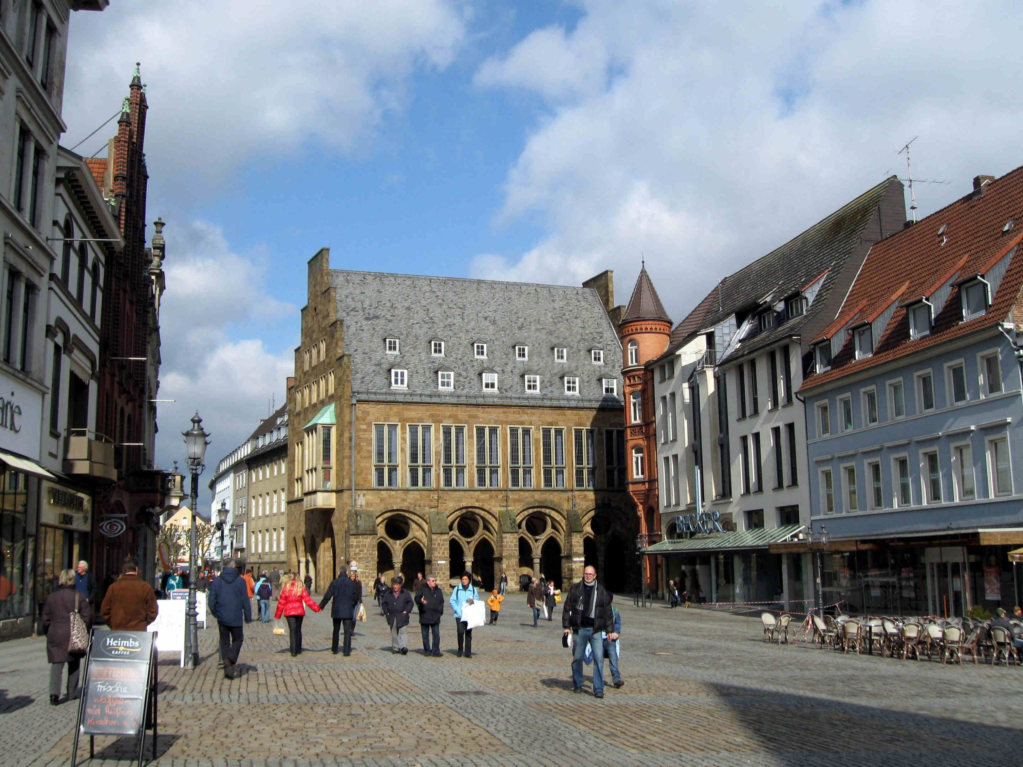 La historia urbodomo de Minden